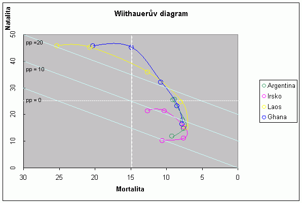 Milos Kroulik It is inly on Wikimedia commons.